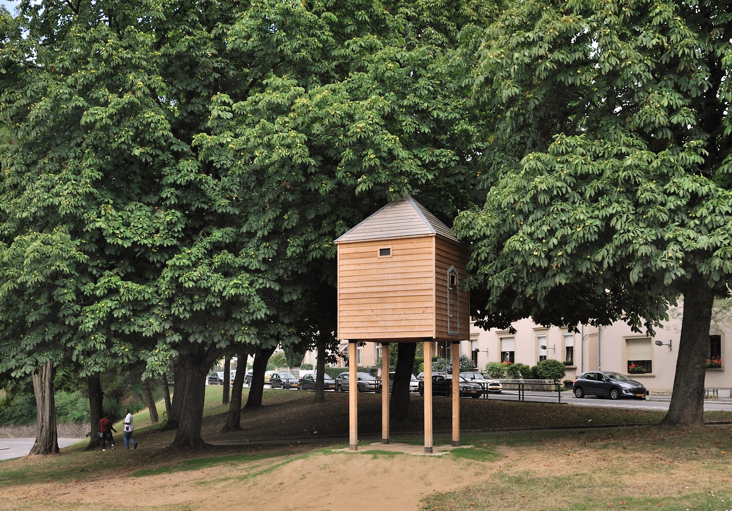 Luxembourg City, quarter of Hollerich, rue d'Anvers: dovecot attracting domesticated pigeons for birth control.